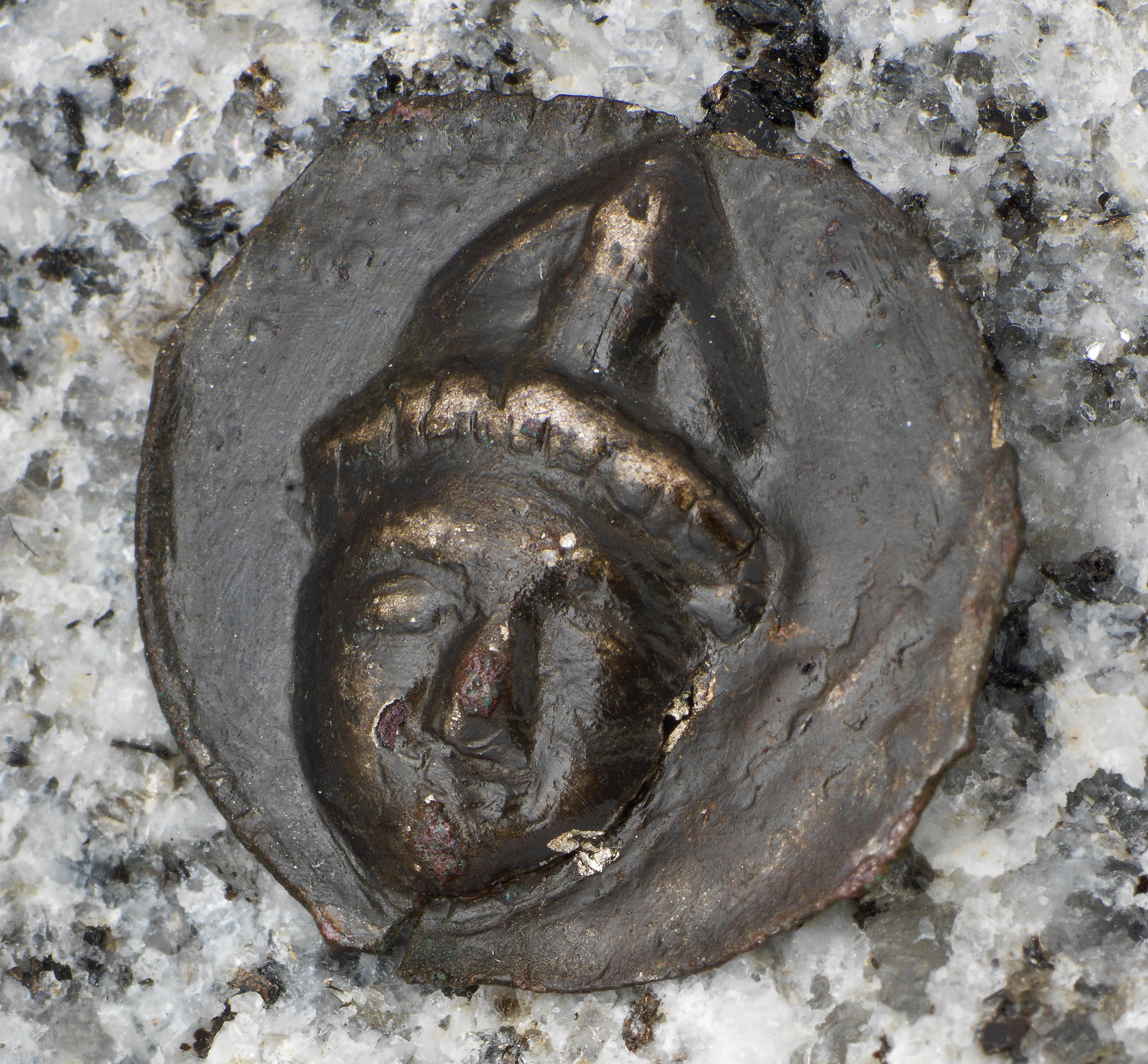 På dette bildet vises en av verdenshistoriens letteste mynter, en brakteat. Mynten veier bare 0,2 gram og måler 15 millimeter i diameter. Siden sølvet var så tynt, kunne det bare preges på den ene siden. Figuren på denne mynten ligner en nisse, men luen er en mitra, en bispehatt ansiktet tilhører erkebiskop Jon Raude (1268-1282). Brakteaten var en av de vanligste i Norge på 1100- og 1200-tallet og kunne veie fra 0,06 til 0,3 gram. I årene 1222-1281 og 1483-1537 hadde erkebiskopene i Nidaros rett til å fremstille mynt, men kongen bestemte motivet. Av denne grunn er det ikke mulig å skille mellom kongenes og erkebiskopenes mynter, med unntak av denne ene mynten med bilde av Jon Raude. Magnus Lagabøtes (1263-1280) mynter fra samme periode er prydet av et hode med krone på. In this picture, a bracteate, one of the lightest coins in world history, is shown. The coin weighs only 0,2 grams and measures 15 millimeter across. Due to the thinness, it could only be engraved on one side. The figure looks like a Santa Claus, but the hat is, in fact, a Mitre, a hat worn by bishops. The face belongs to the Norwegian archbishop Jon Raude (1268-1282). The bracteate was one of the most common coins in Norway during the 1100s and the 1200s and could weigh from 0,06 to 0,3 grams. During the years 1222-1281 and 1483-1537, the archbishop in Nidaros had the right to issue coins, but the king decided its appearance. Because of this, it is not possible to distinguish between coins issued by the king and those issued by the archbishop. The coin in the picture serves as an interesting exception, since the king, Magnus Lagabøte (1263-1280) issued coins during the same period decorated with a head and a crown. Vennligst krediter/Please credit: Foto/photo: Åge Hojem, NTNU Vitenskapsmuseet I samarbeid med Halldis Nergaard, Adresseavisa